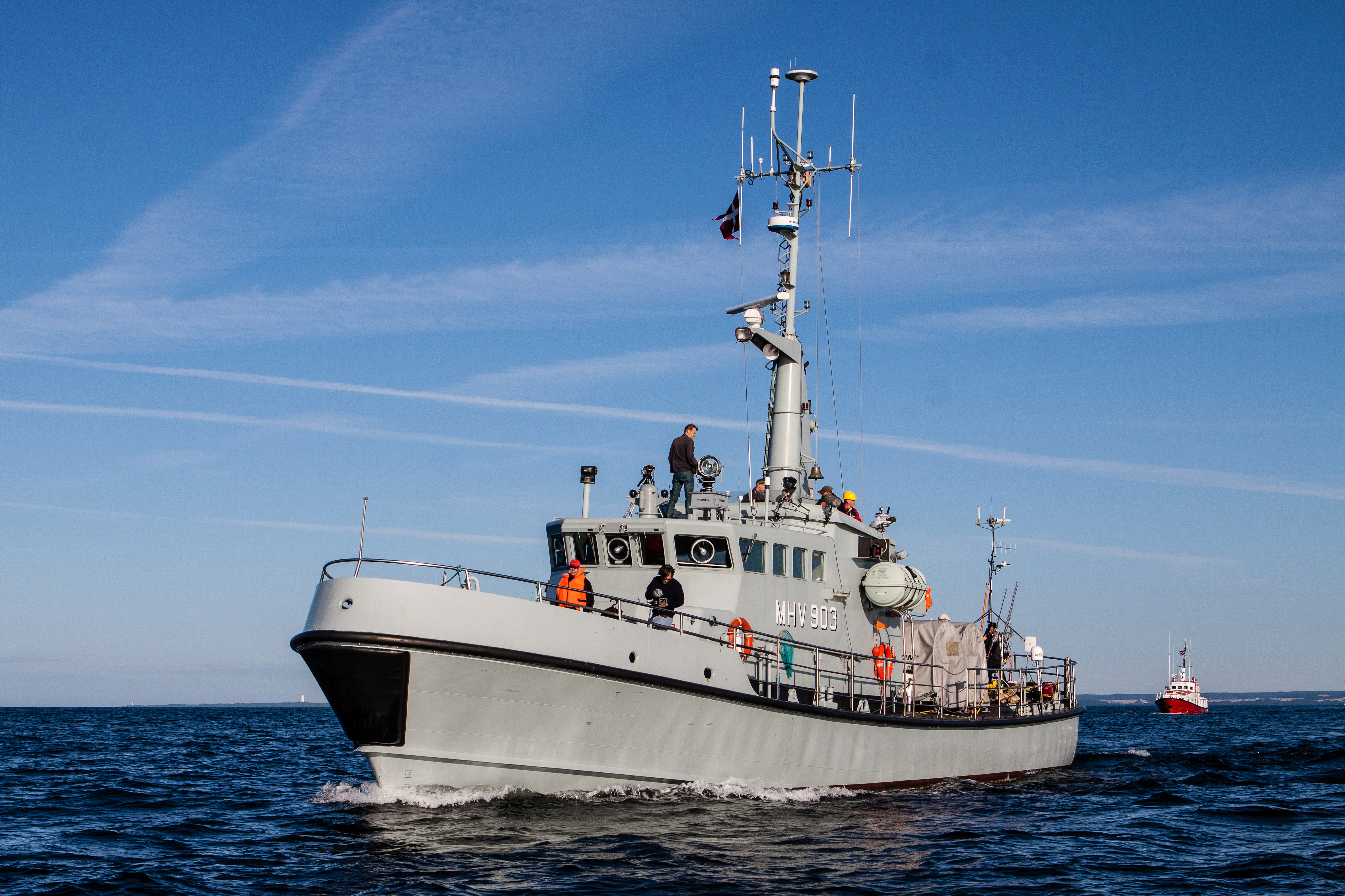 Danish home guard vessel MHV 903 Hjortø, Danish rescue cruiser SAR Leopold Rosenfeldt in the background. Both ships were part of the LES/TDS rocket launch campaign.